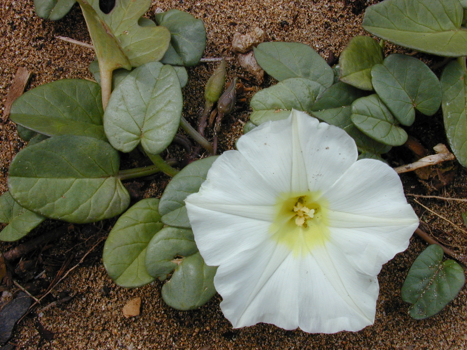 Ipomoea imperati (flower and leaves). Location: Maui, Kalepolepo Kihei